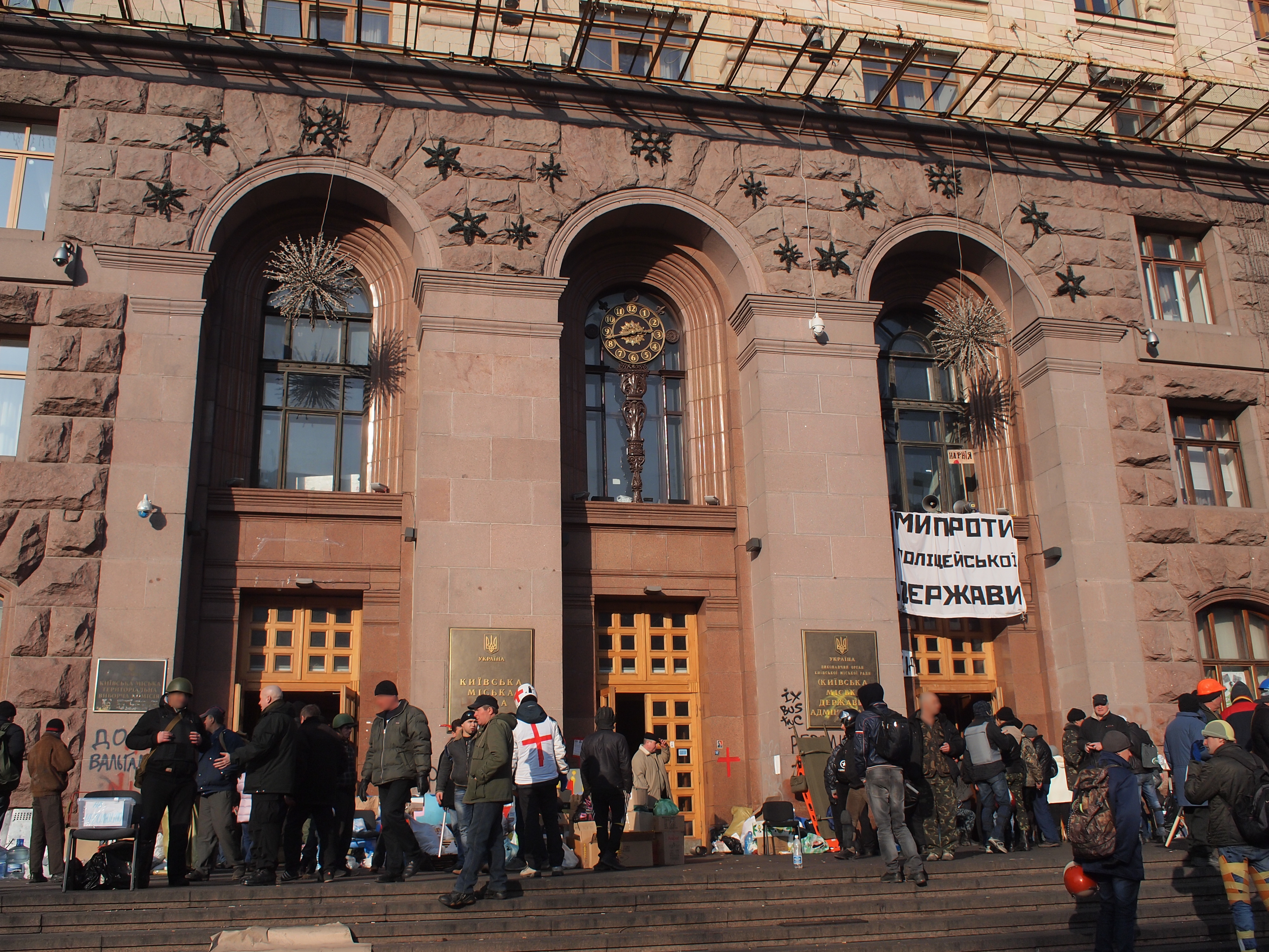 Euromaidan in Kiev: Kiev City Hall on February21, 2014.